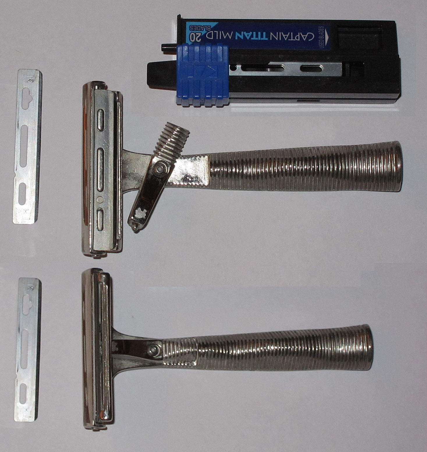 A safety razor (here a Cobra) using shavette blades. Shown here open and closed with the blade distributor above